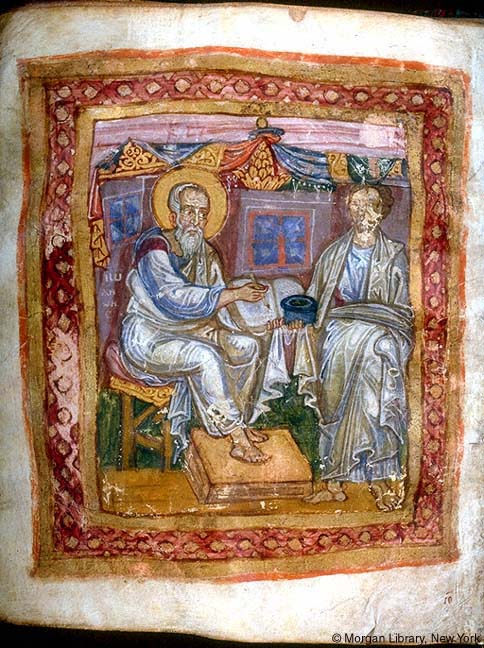 Content: the Apostle John and Marcion of Sinope (according to R. Eisler, The Enigma of the Fourth Apostle, Methuen & Co., 1938, p. 158, plate XIII). Source: J. Pierpoint Morgan Library MS 748, folio 150 verso. Digitized by that library. Painting on vellum. Italian, 11th century URL to JPM Library entry